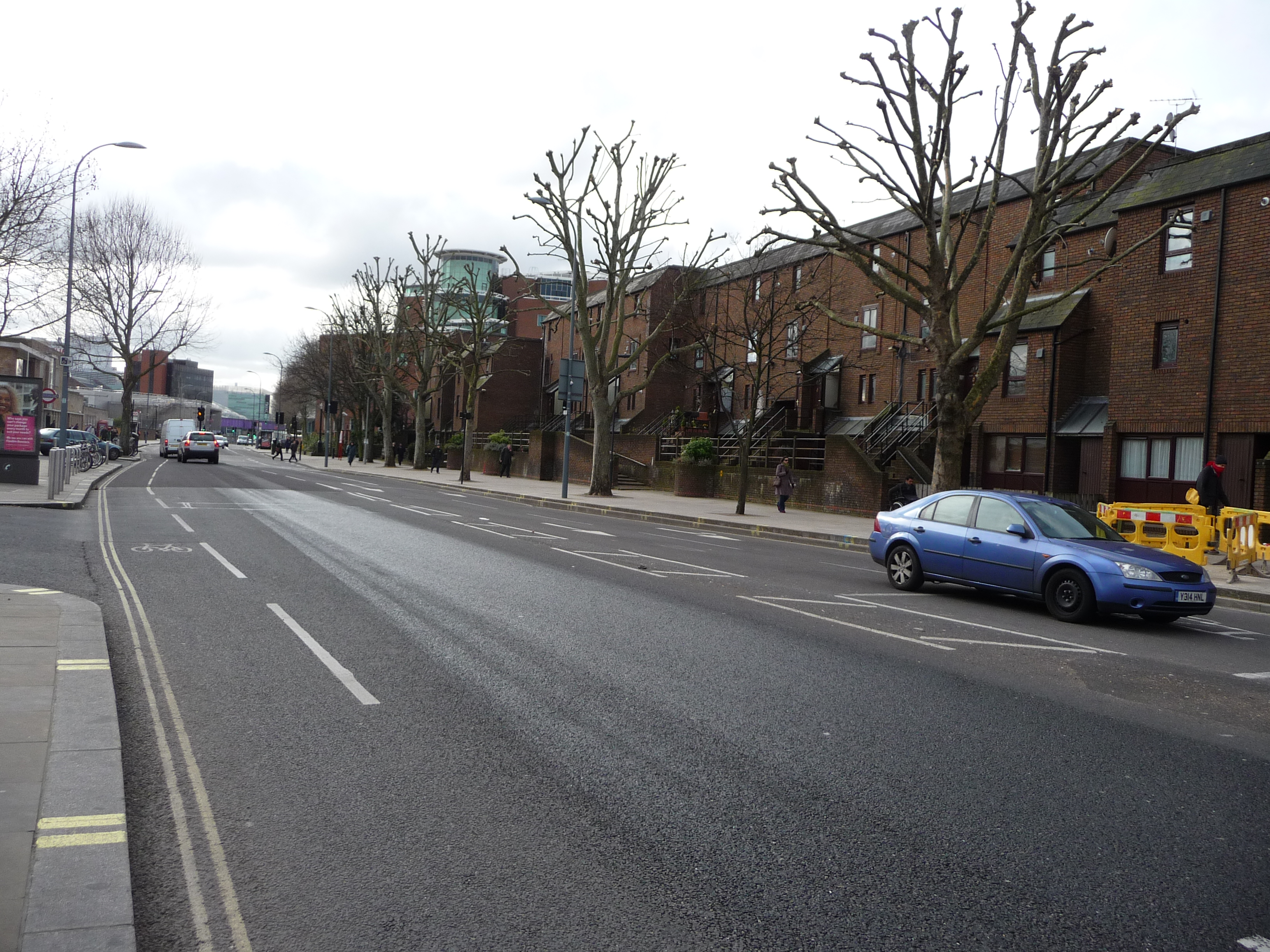 London : White City - Wood Lane Wood Lane in White City, which includes Television Centre, and White City train station opposite it.